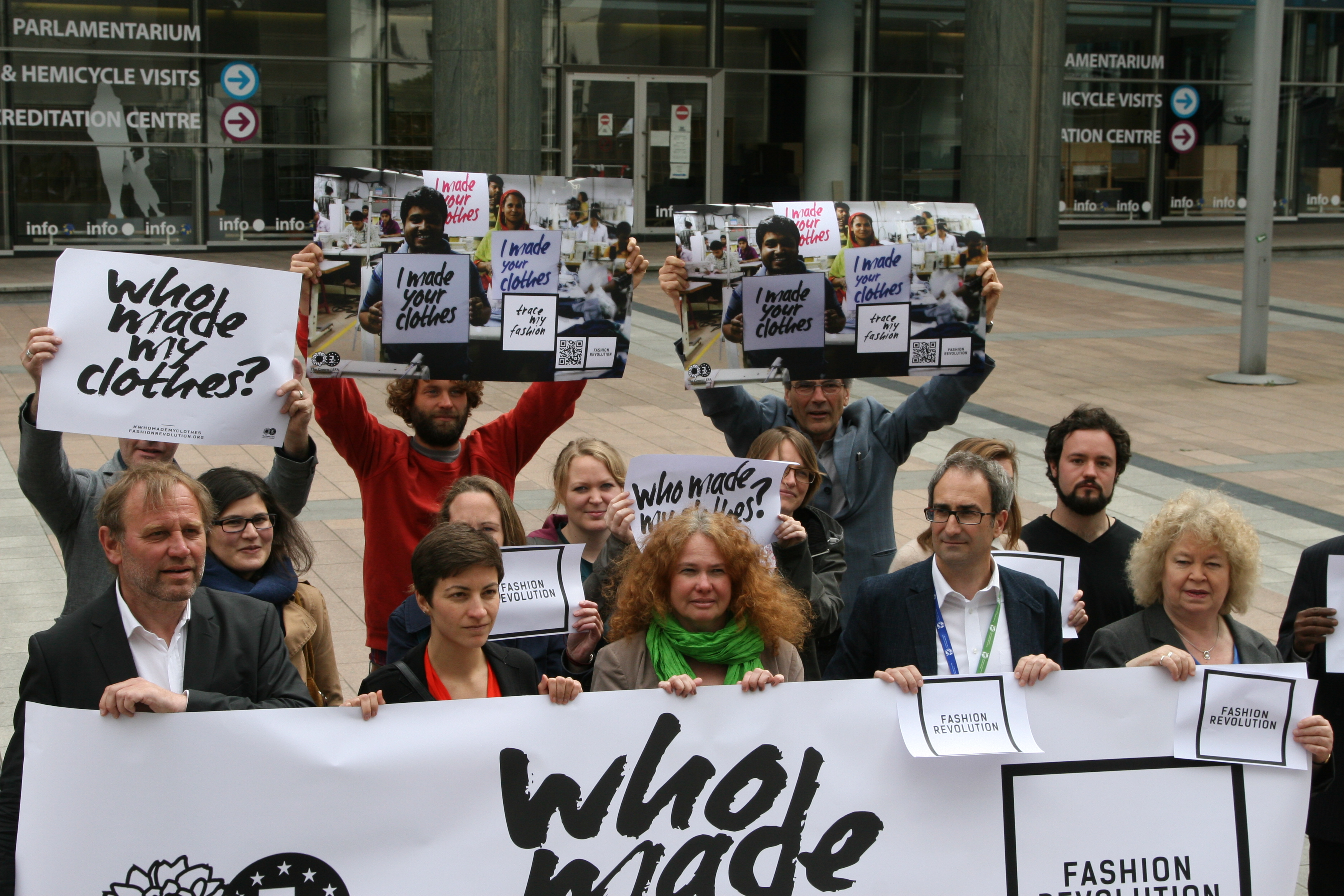 This photo displays men and women protesting fast fashion with Fashion Revolution's slogan of "Who Made My Clothes".